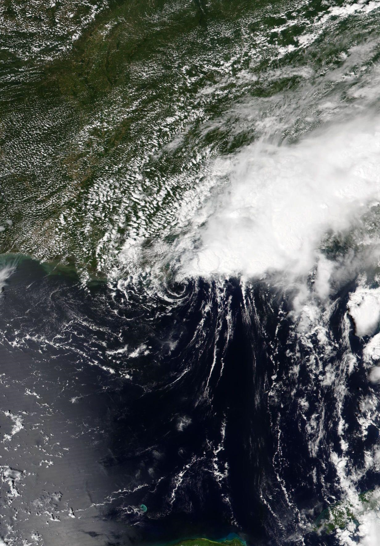 A weakened Tropical Storm Marco approaching Louisiana on August 24, 2020